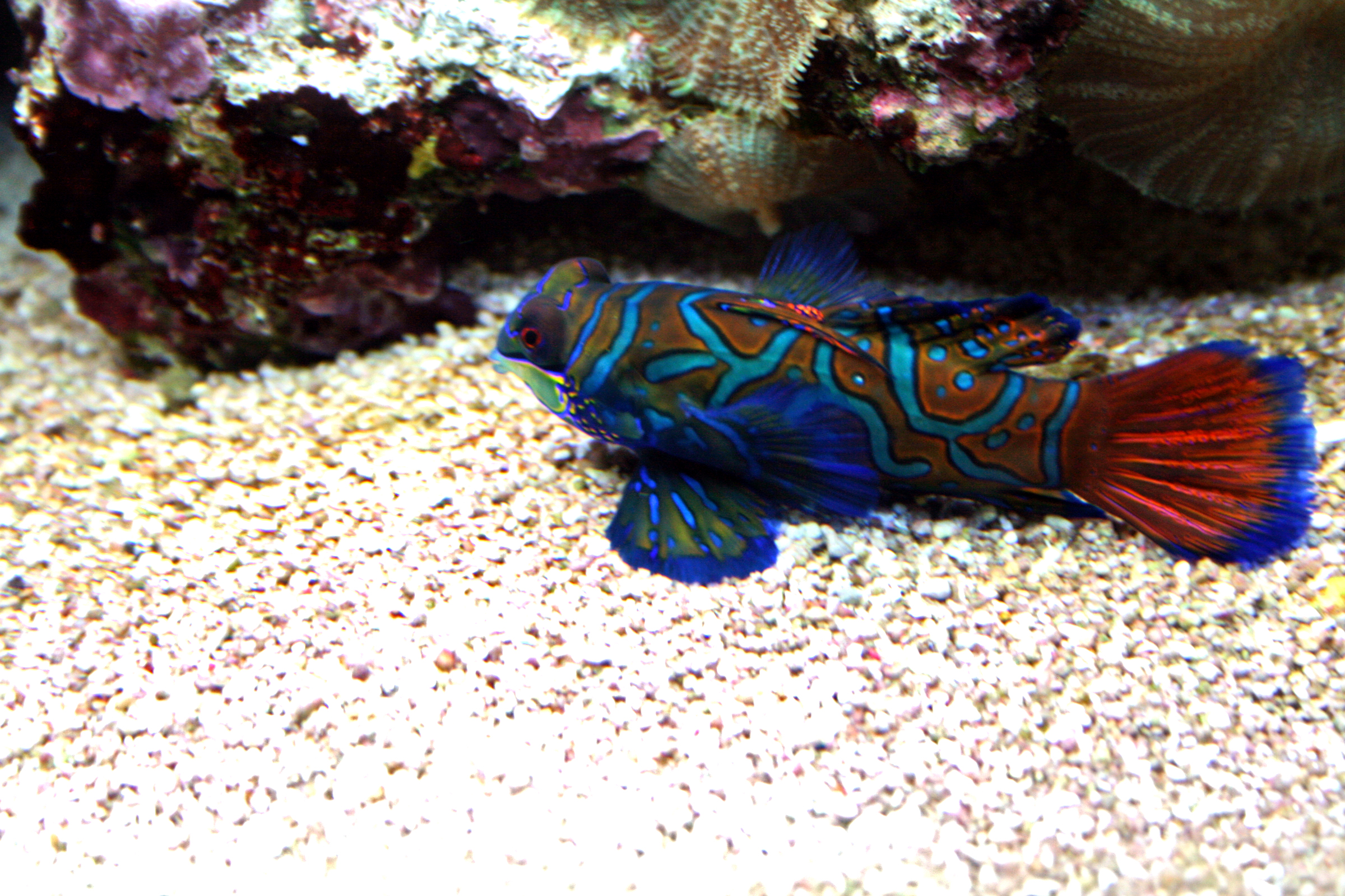 Fish Mandarinfish, Synchiropus splendidus in Prague sea aquarium, Czech Republic